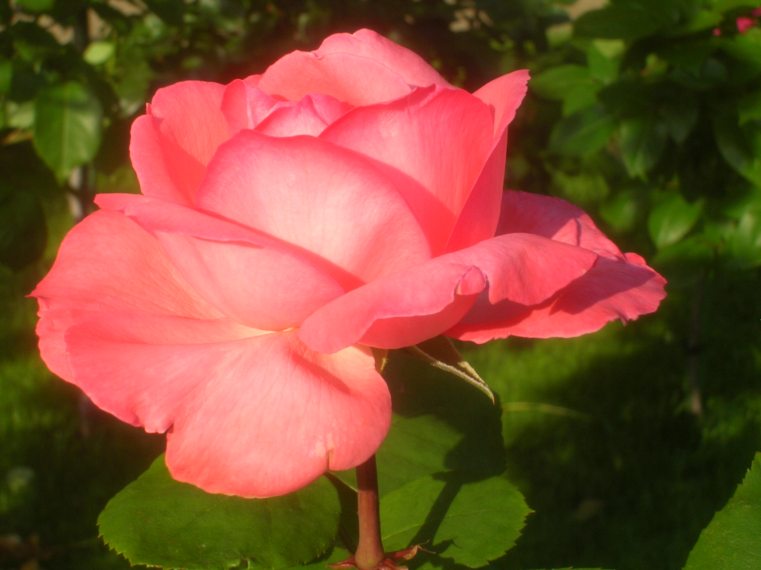 Rosa 'Aachener Dom' in the Volksgarten in Vienna.